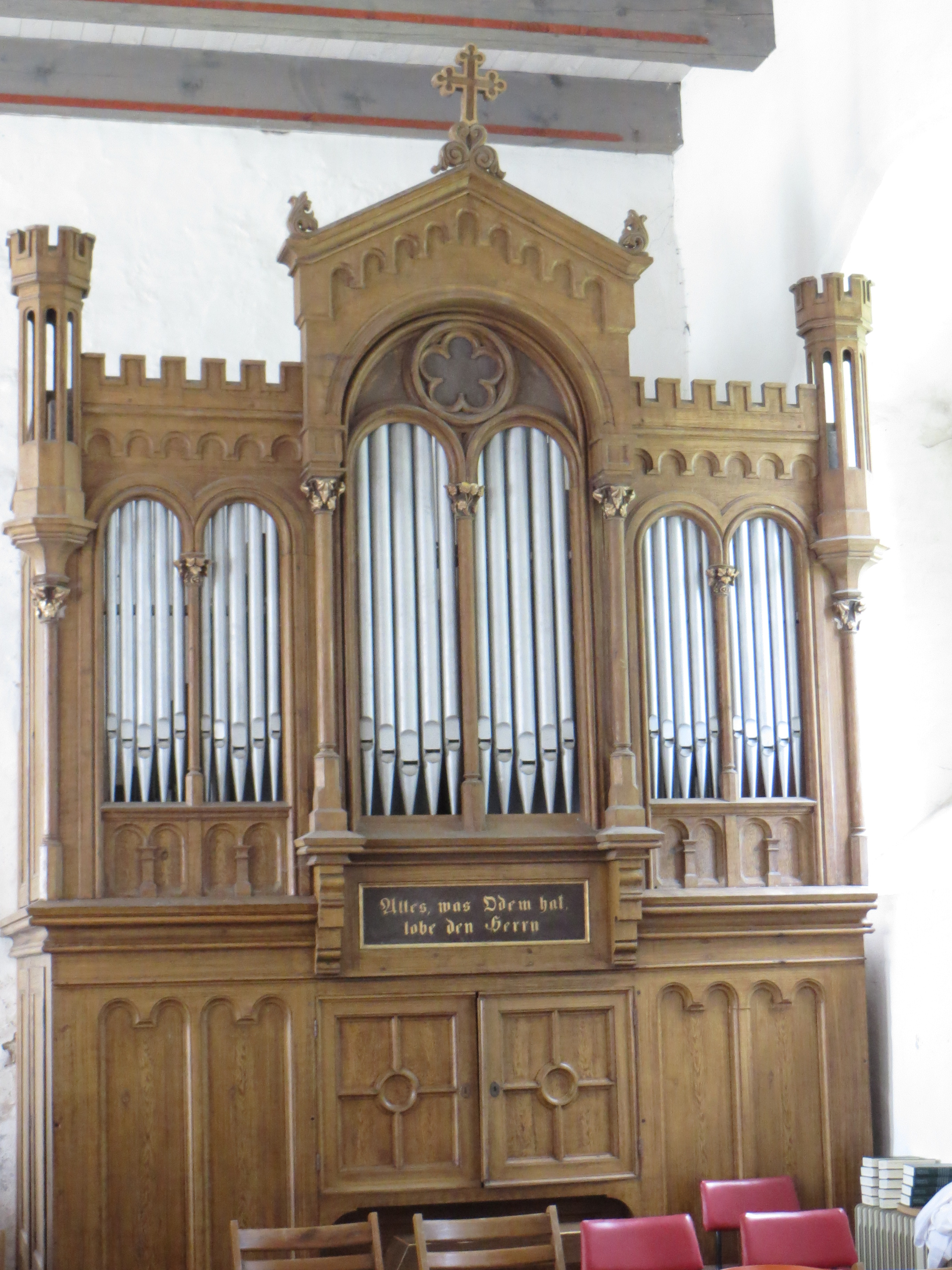 Maria-Magdalena-Kirche Schlatkow: organ